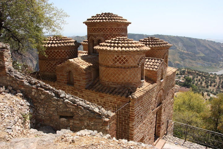 Cattolica di Stilo. Cattolica di Stilo and view over the the valley, Stilo.